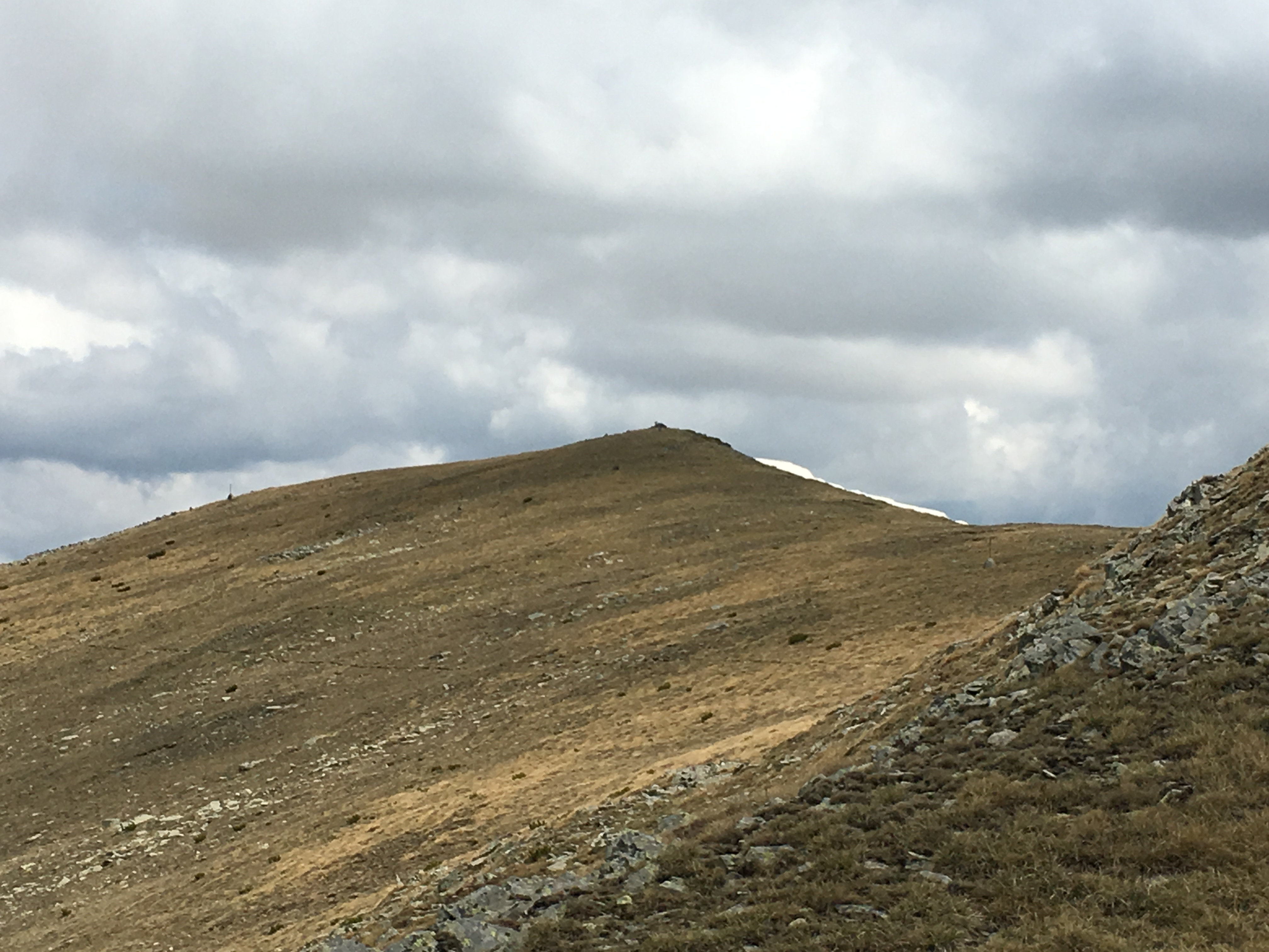 Angelov Peak (2,694 m) on the Rila mountain